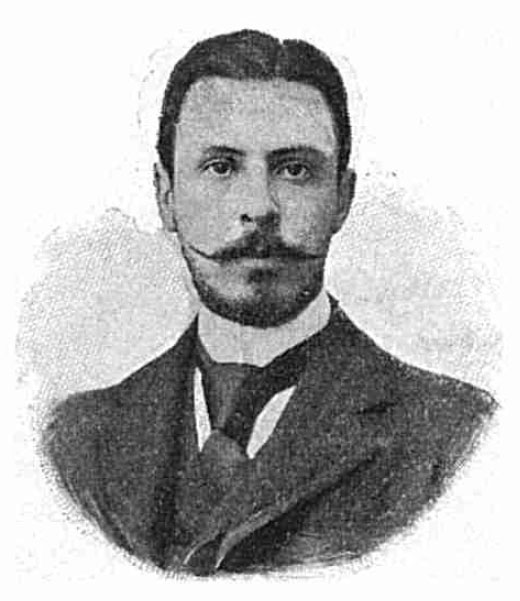 National-liberal member of the Chamber of Deputies of Romania Dan D. Brătianu.